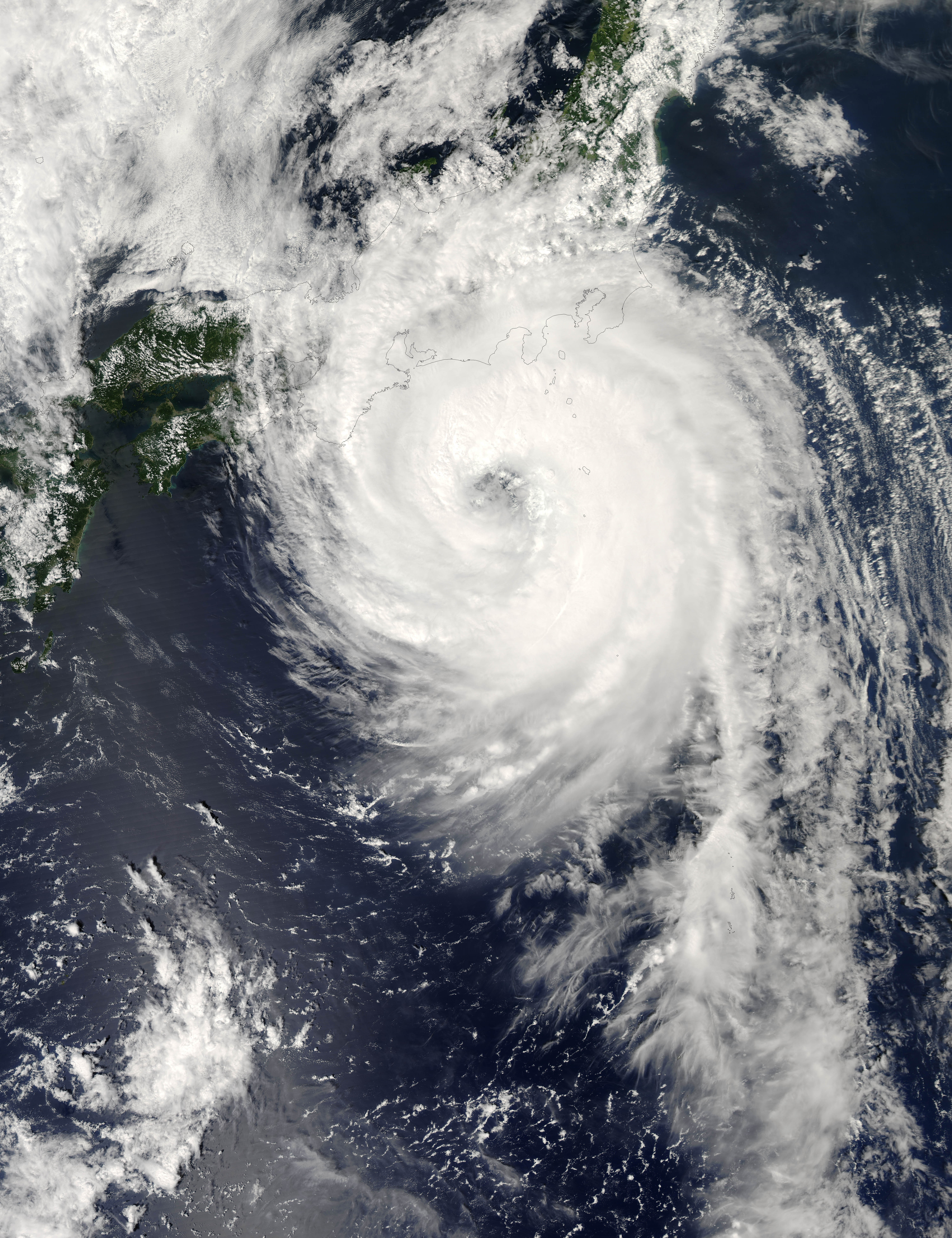 The Moderate Resolution Imaging Spectroradiometer (MODIS) on NASA’s Aqua satellite acquired this photo-like image of Typhoon Fitow approaching Japan at 1:15 p.m. local time (4:15 UTC) on September 6, 2007. Roughly an hour later, the Joint Typhoon Warning Center estimated Fitow’s sustained winds to be over 160 kilometers per hour (100 miles per hour), putting the storm at Category Two strength. The satellite image shows Fitow to have tightly wound bands of clouds around a well-defined, though cloud-filled eye, and towering thunderstorms characteristic of powerful tropical storm systems (the generic name for typhoon, hurricanes, and tropical cyclones). At the time MODIS observed Typhoon Fitow, the storm’s outer edges were bringing winds and rain to Tokyo and strong storm surge to coastal areas on the islands of Honshu, Kyushu, and Skikoku. Typhoon Fitow became a named storm on August 29, 2007. The storm system gradually built in power as it drew towards the main islands of Japan, briefly reaching Category Two strength, then weakening to Category One, before rebuilding again. It was forecast to reach Honshu, the largest island in Japan on September 6, then track over the island and lose power. “Fitow” is a Micronesian word for a flower found on the island of Yap. The list of names of western Pacific storms, provided by the Hong Kong Observatory, draws on Asian languages. The high-resolution image provided above is at MODIS’ full spatial resolution (level of detail) of 250 meters per pixel. The MODIS Rapid Response System provides this image at additional resolutions.